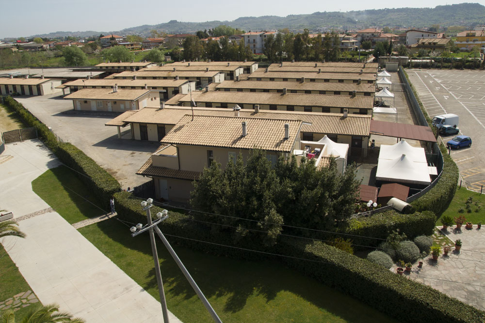 Panorama dall'Ippodromo di San Giovanni Teatino (CH)